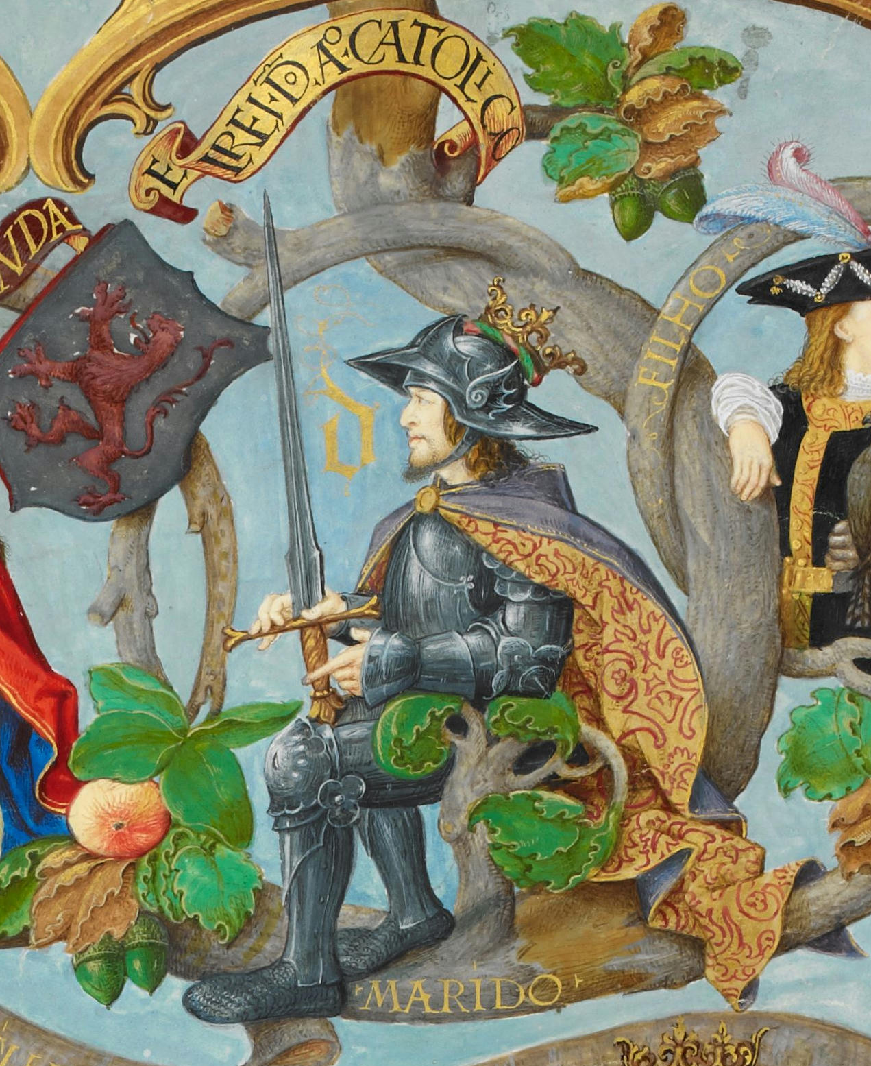 King Alfonso I of Asturias, "the Catholic" (693-757).